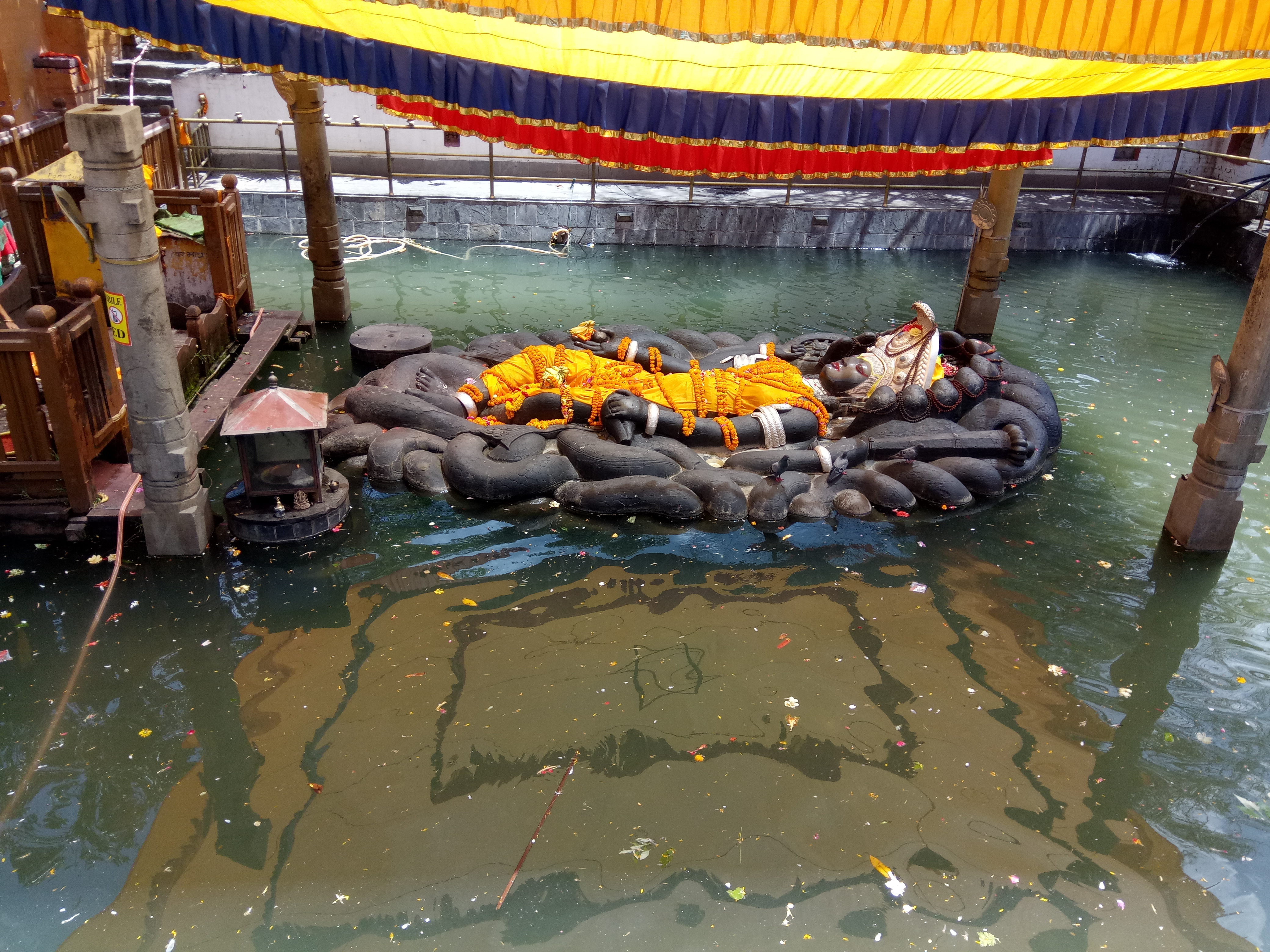 Statue of lord Krishna at Budhanilkantha temple